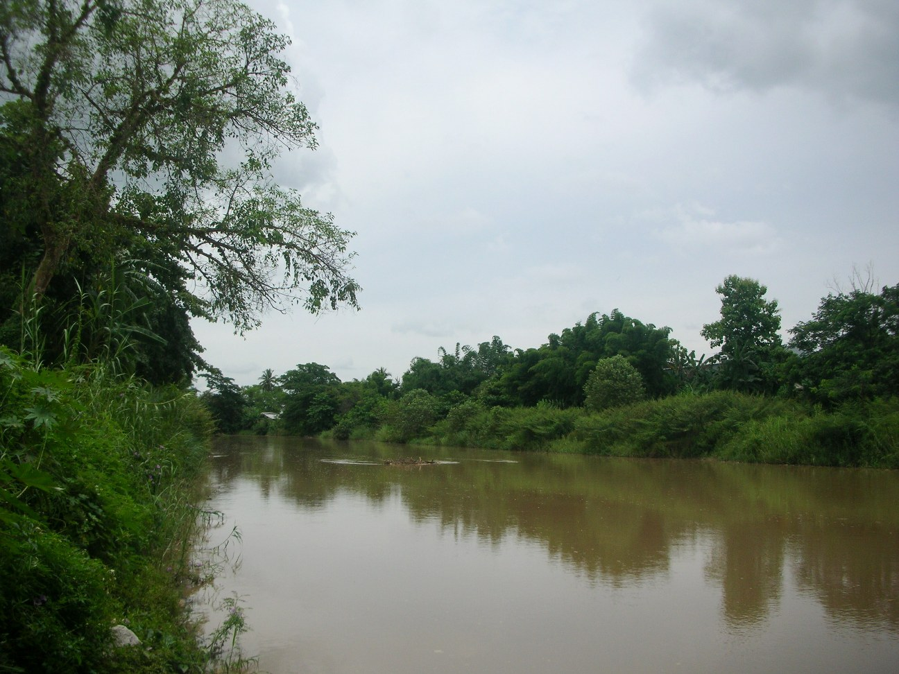 The Lao river at Ban Tha Sai near the road to Thoen